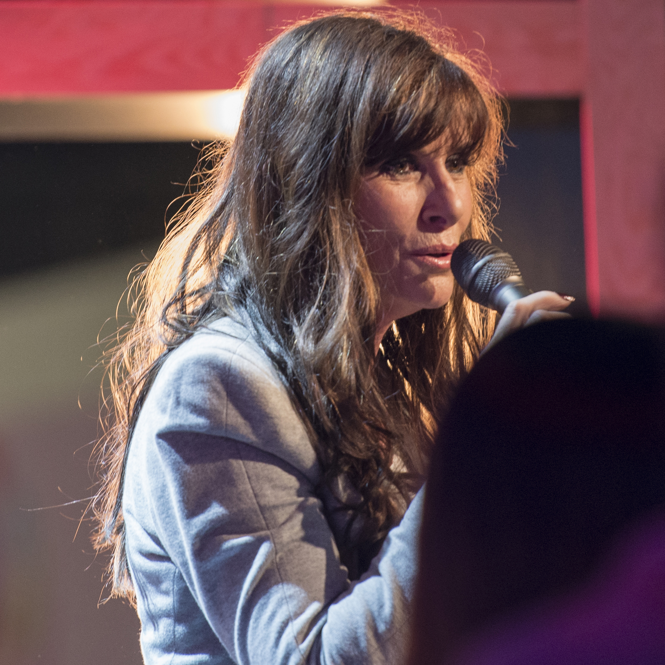 Linda Martin performs a cover of the Loreen song "Euphoria" in the Swedish TV-show "Live: Studio Eurovision" for SVT, in May 2013.